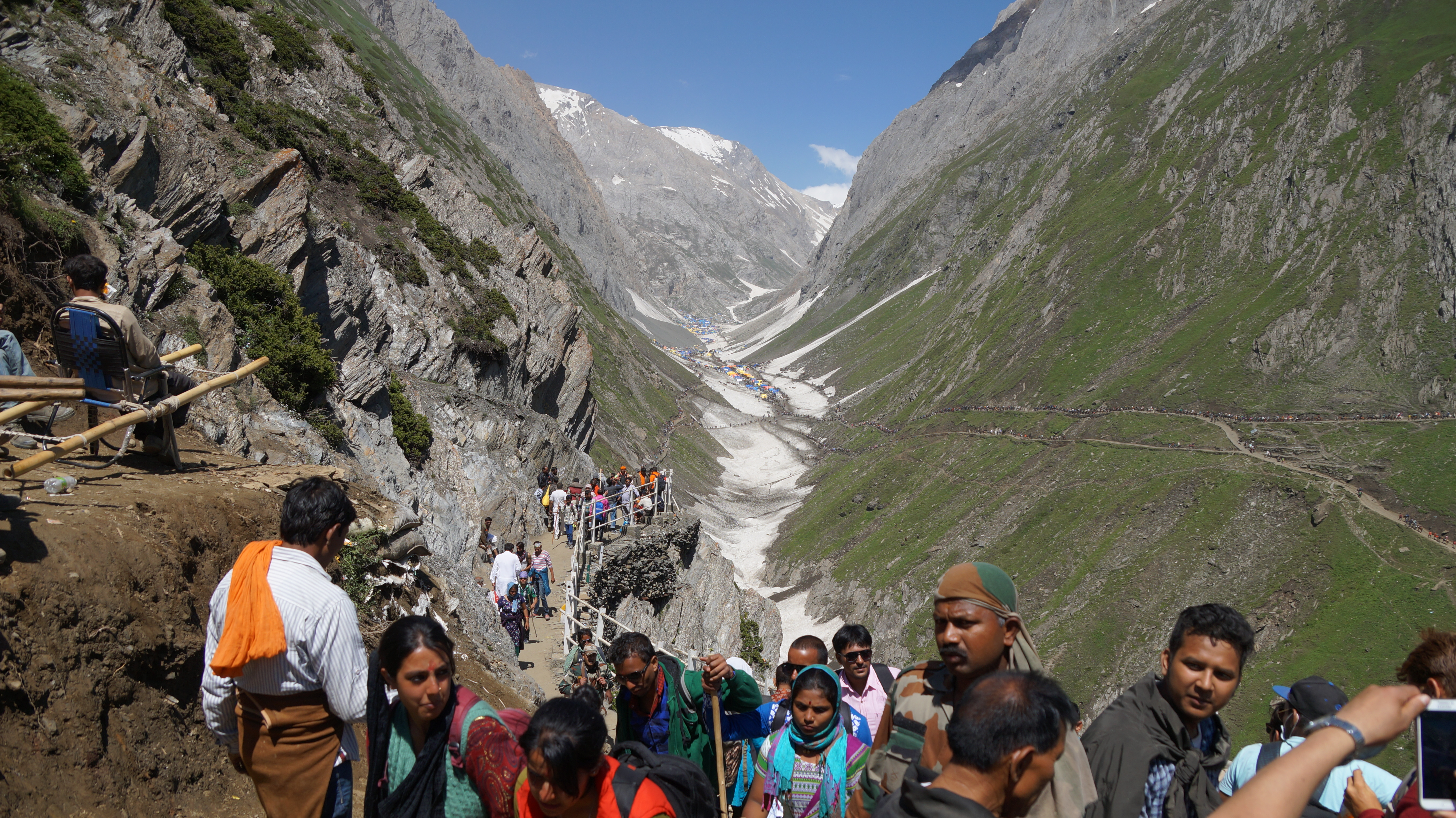 Amarnath cave is a Hindu shrine located in Jammu and Kashmir, India. The cave is situated at an altitude of 3,888 m, about 141 km from Srinagar, the capital of Jammu and Kashmir and reached through Pahalgam townAmarnath cave is a Hindu shrine located in Jammu and Kashmir, India. The cave is situated at an altitude of 3,888 m, about 141 km from Srinagar, the capital of Jammu and Kashmir and reached through Pahalgam town